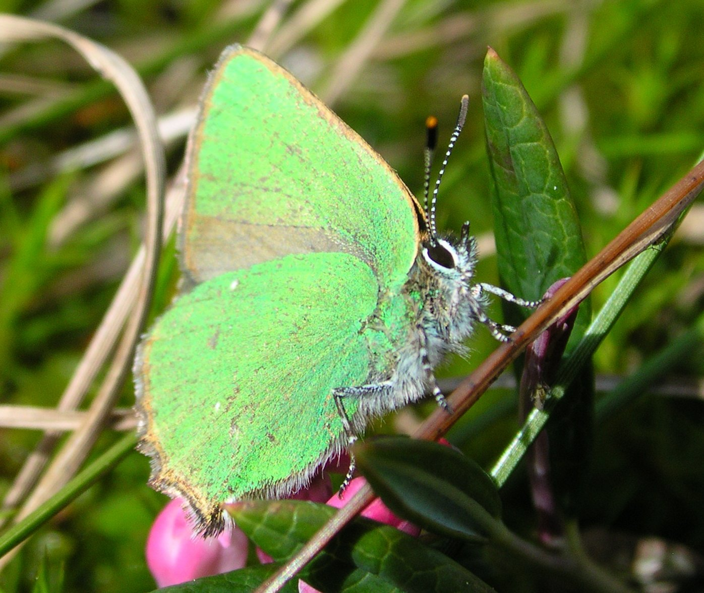 Green Hairstreak - Callophrys rubi - at Blefjell, Norway